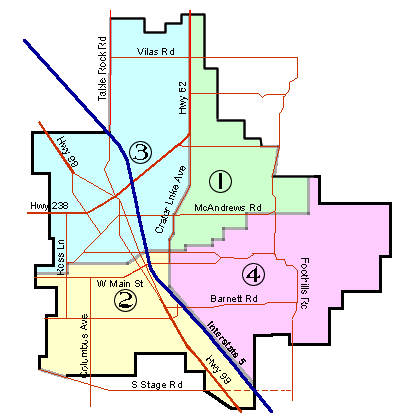 This image is not drawn to scale. The city of Medford, Oregon, USA is divided into four "wards", each represented by two city council members. I created this image myself using Fireworks MX 2004. Zab (talk) 03:14, 3 February 2008 (UTC)